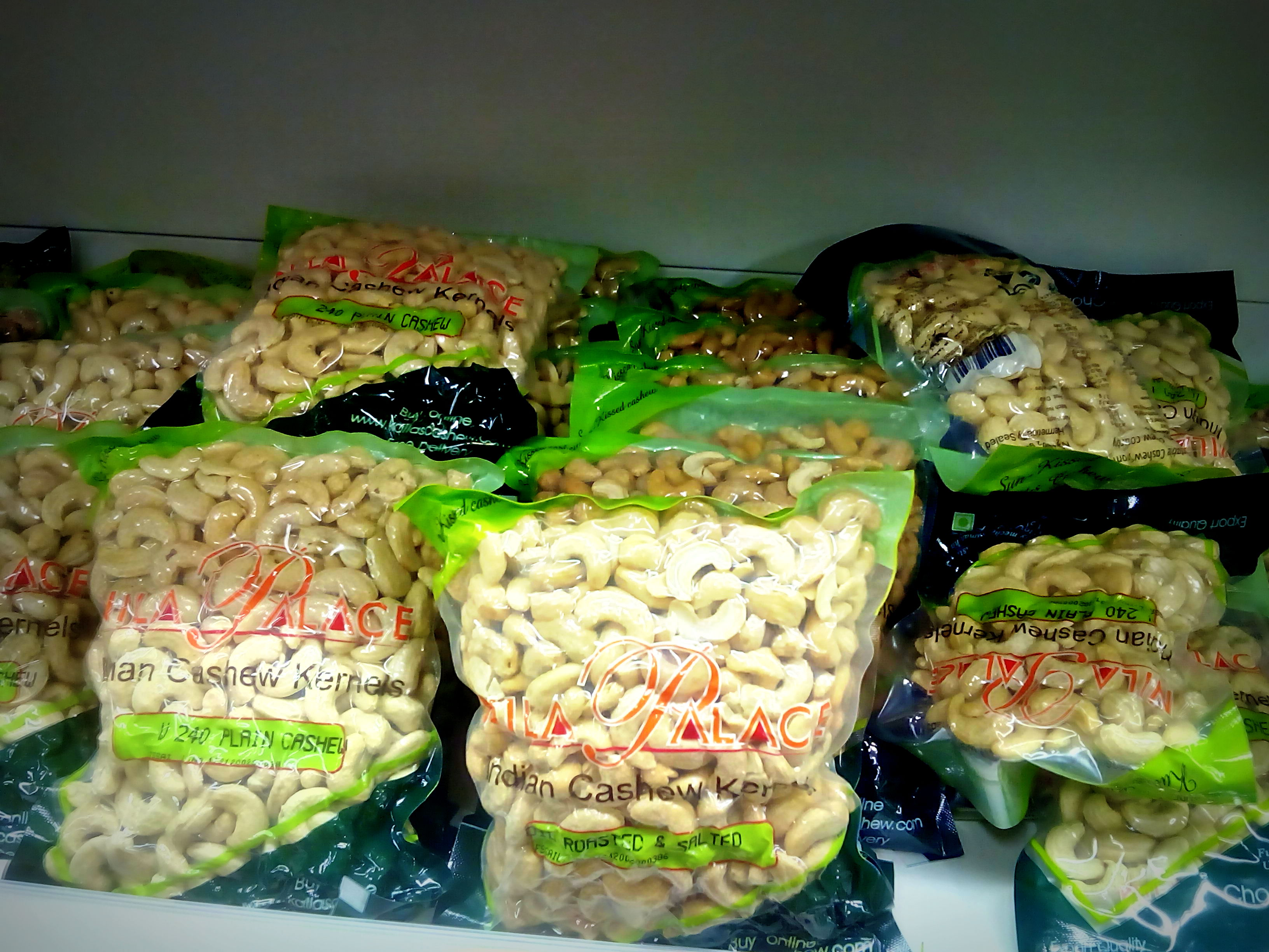 Cashew Business is the most established business in Kollam city. Kollam city is the largest processed cashew exporter in the world.